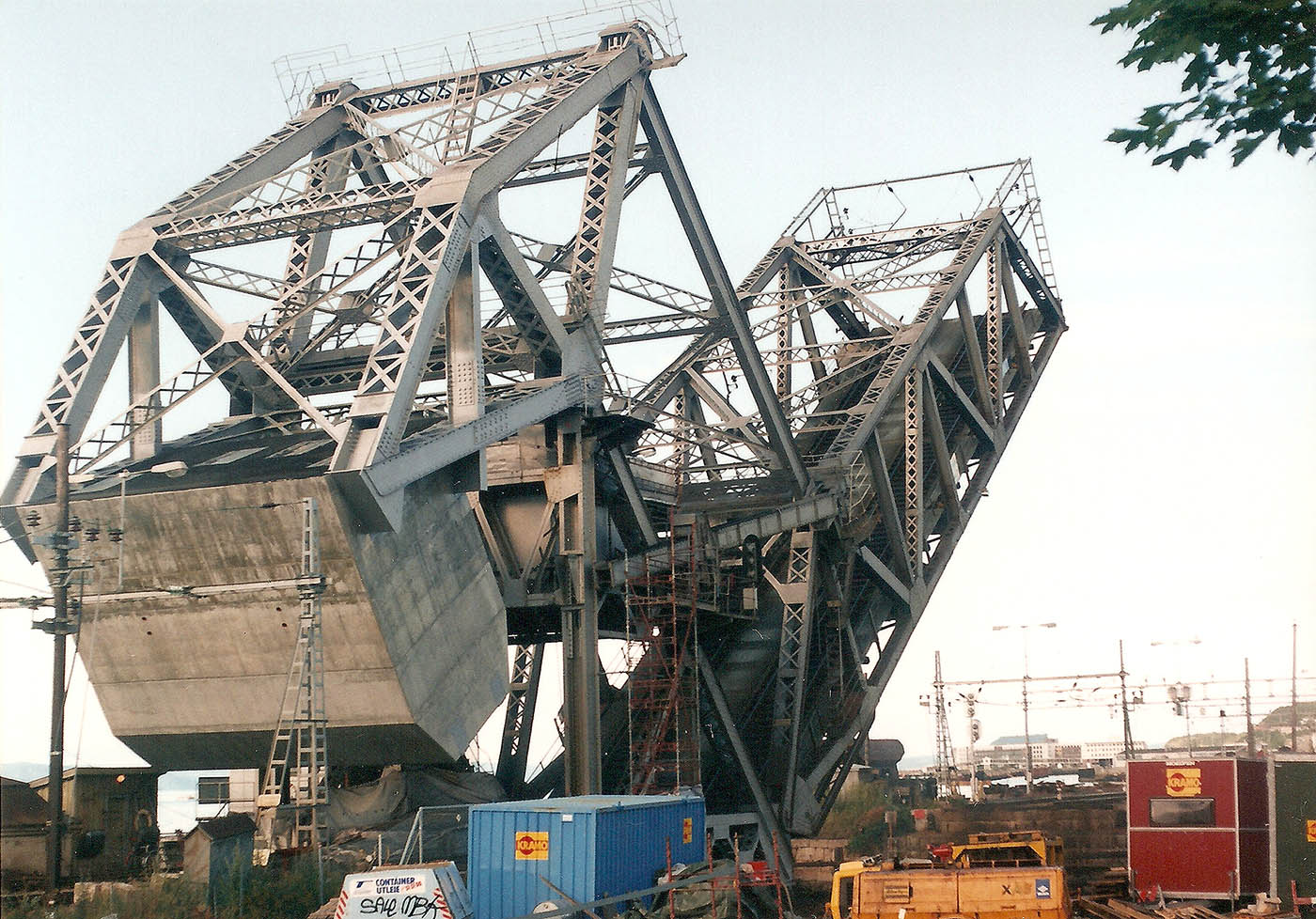 Skansen bridge in opened position. Overhead lines laying on the tracks are not seen due to low resolution